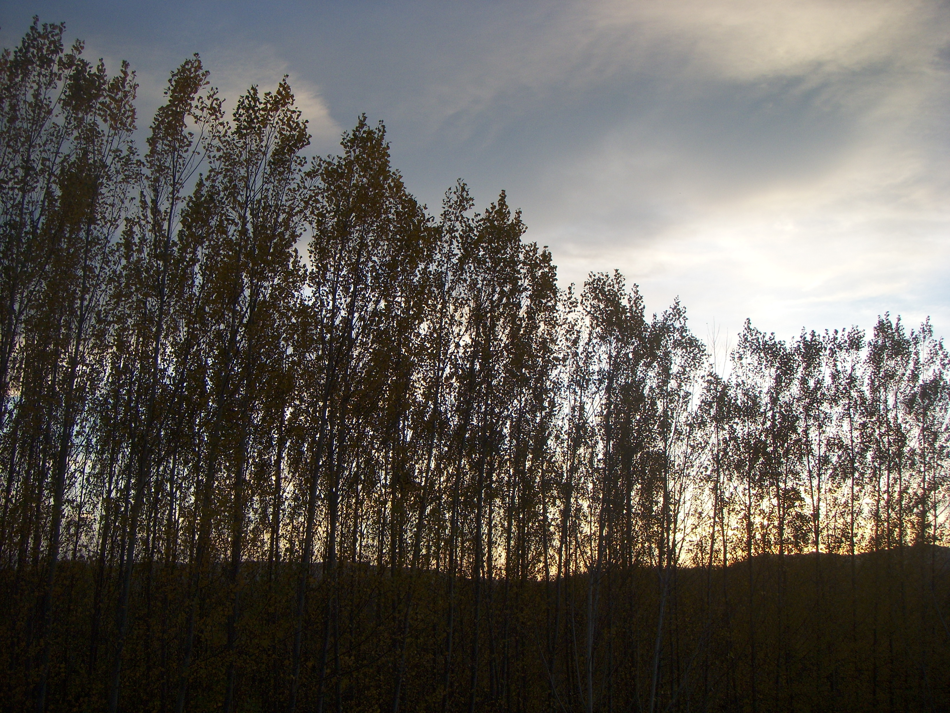 Poplar plantation in Fonelas, Granada, Spain.